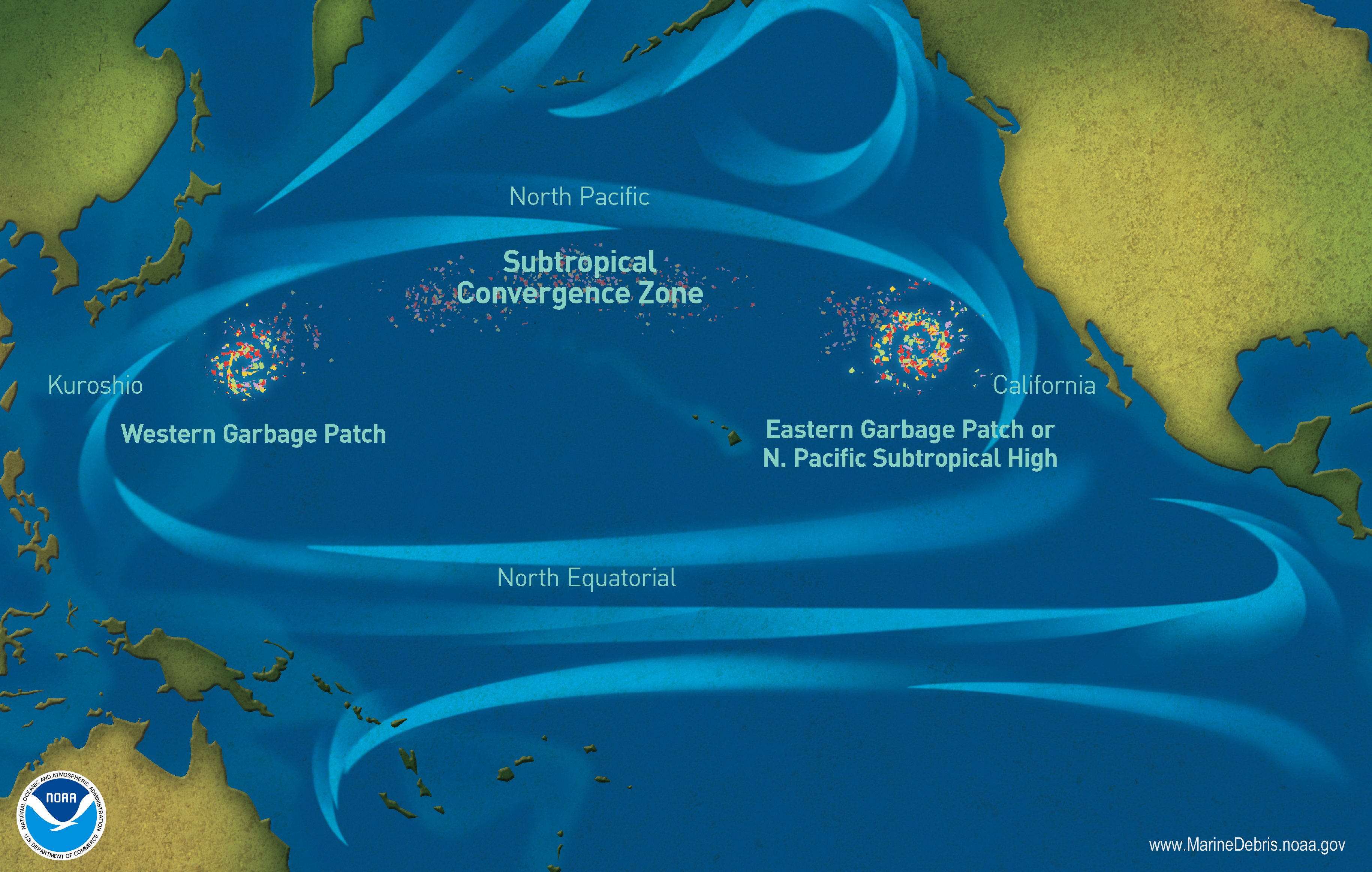 Marine debris accumulation locations in the North Pacific Ocean